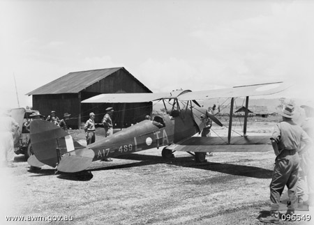 AWM Caption: CAPE WOM, WEWAK AREA, NEW GUINEA. 1945-09-14. FOLLOWING HIS FORMAL SURRENDER TO MAJ-GEN H.C.H. ROBERTSON, GOC 6 DIVISION ON 1945-09-13, LT-GEN H. ADACHI, COMMANDER 18 JAPANESE ARMY, WAS REQUIRED TO ATTEND A SERIES OF CONFERENCES WITH AUSTRALIAN STAFF OFFICERS TO DISCUSS ARRANGEMENTS ARISING FROM THE SURRENDER. AFTER THE CONFERENCES LT-GEN ADACHI WAS FLOWN TO KIARIVU, FROM WHENCE HE RETURNED TO HIS OWN HEADQUARTERS. PHOTOGRAPH SHOWS GEN ADACHI SEATED IN FRONT COCKPIT OF RAAF TIGER MOTH OF 12 LOCAL AIR SUPPLY UNIT PRIOR TO TAKEOFF. THE PILOT (REAR COCKPIT) IS FLYING OFFICER T.L. COLLIER.